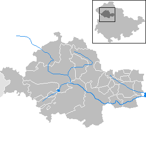 Municipalities in District Unstrut-Hainich, Thuringia